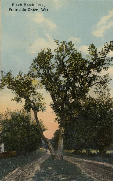 The Black Hawk Tree growing in the middle of the street. According to legend, Chief Black Hawk hid in the branches of this tree for three days during the Black Hawk War.